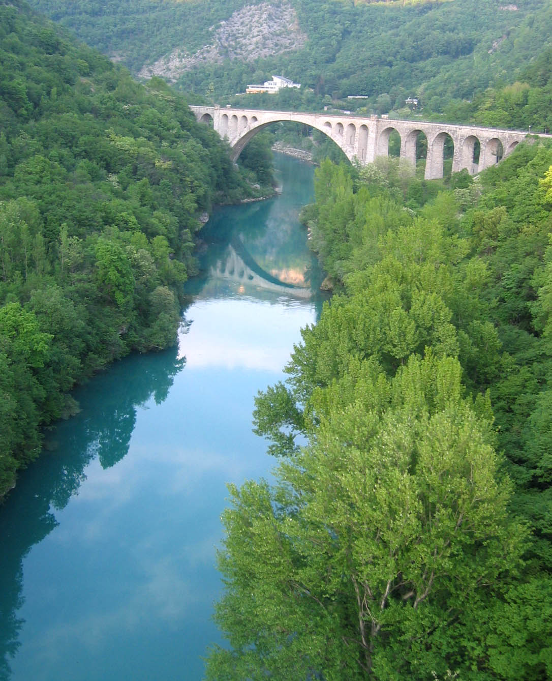 Solkan bridge, largest stone-arch bridge in the world (Slovenia)